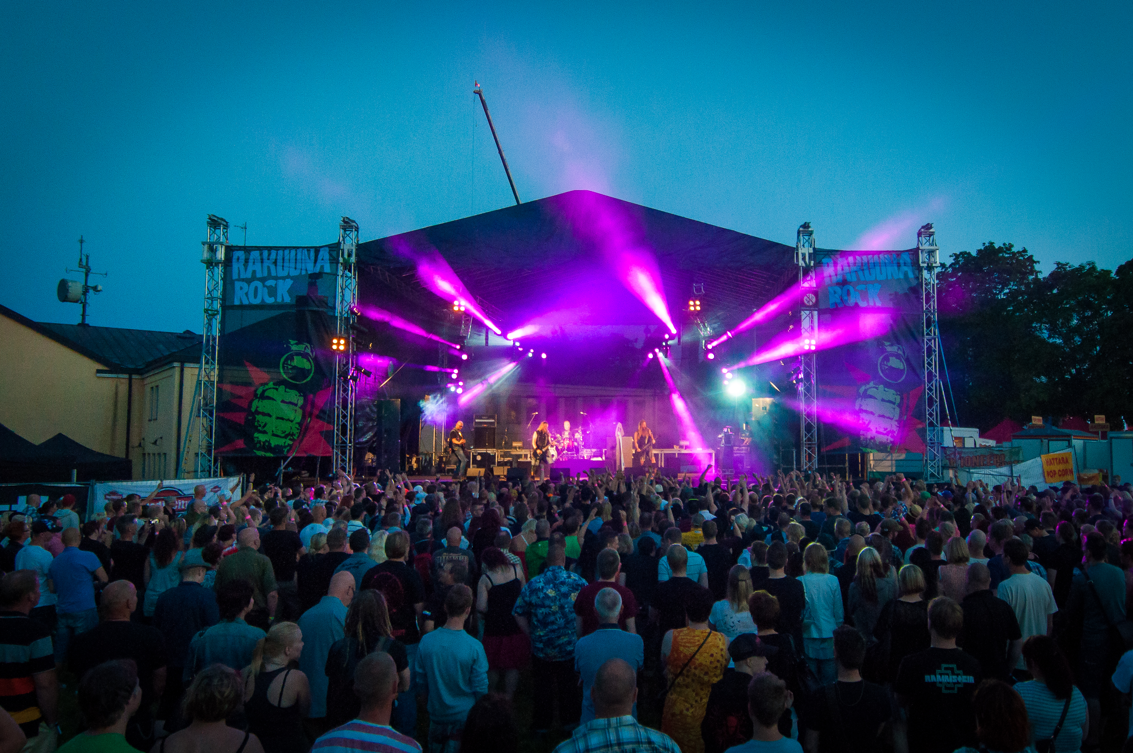 Finnish metal band Kotiteollisuus performing at the 2014 Rakuuna Rock festival in Lappeenranta, Finland.